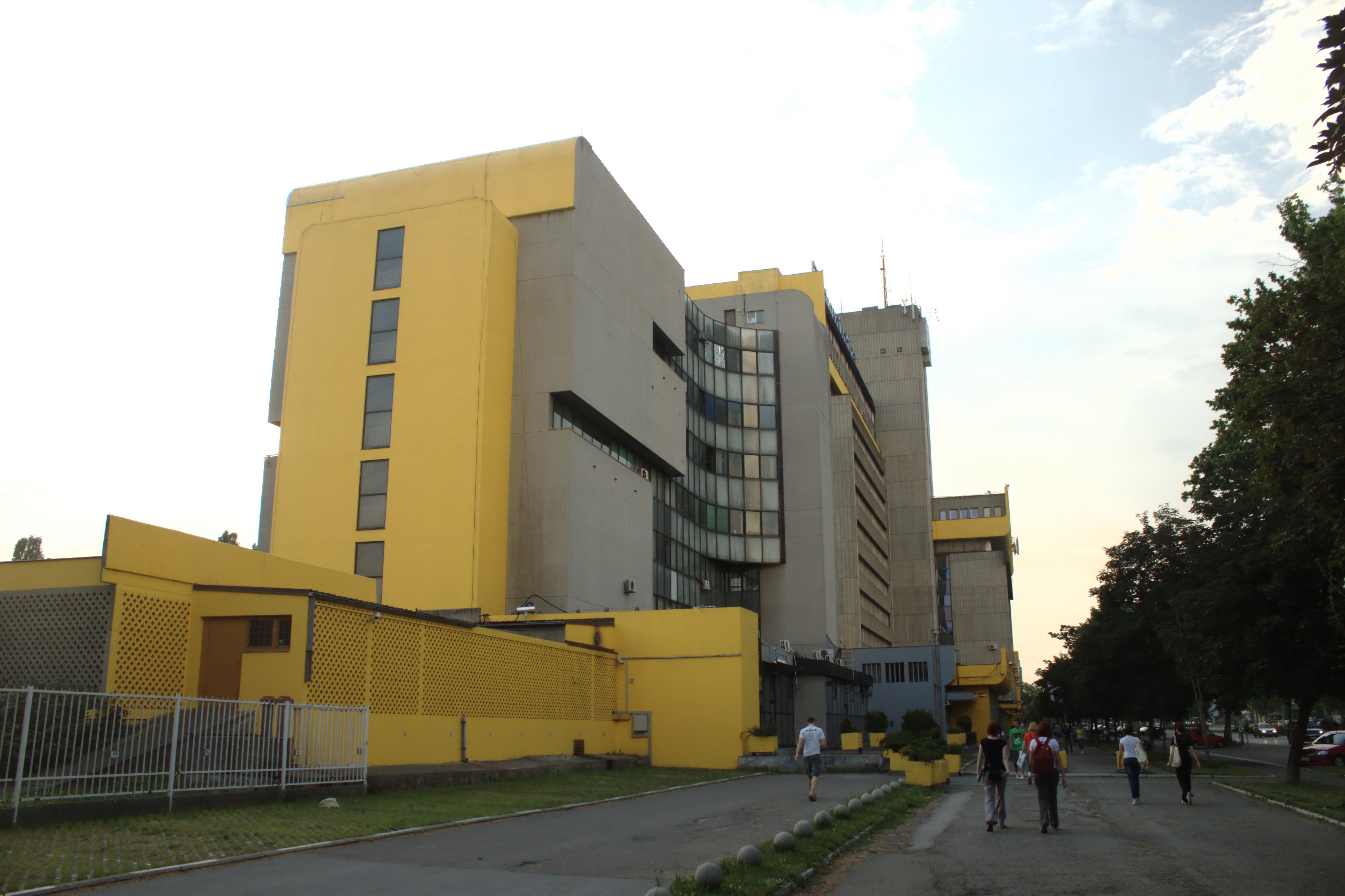 The building of Elektrovojvodina at Bulevar Oslobođenja (Liberation Boulevard) in Novi Sad-Liman, Serbia